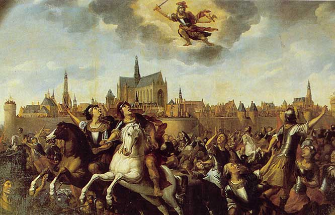 Saint Bavo scares off the Kennemmers during their attack on Haarlem in 1274. This painting depicts a Haarlem legend dating from that time. It was painted in 1673 when stories about knights were very popular and Haarlem was eager to show its patron Saint as a courageous knight. This painting shows many similarities with the Santiago Matamoros legend, that gained popularity at about the same time. The painting was commissioned exactly 100 years after the siege of Haarlem. The painting is not historically accurate, since Haarlem was not a walled city until the late middle ages. The view shown of Haarlem from the west is accurate for 1673 however.